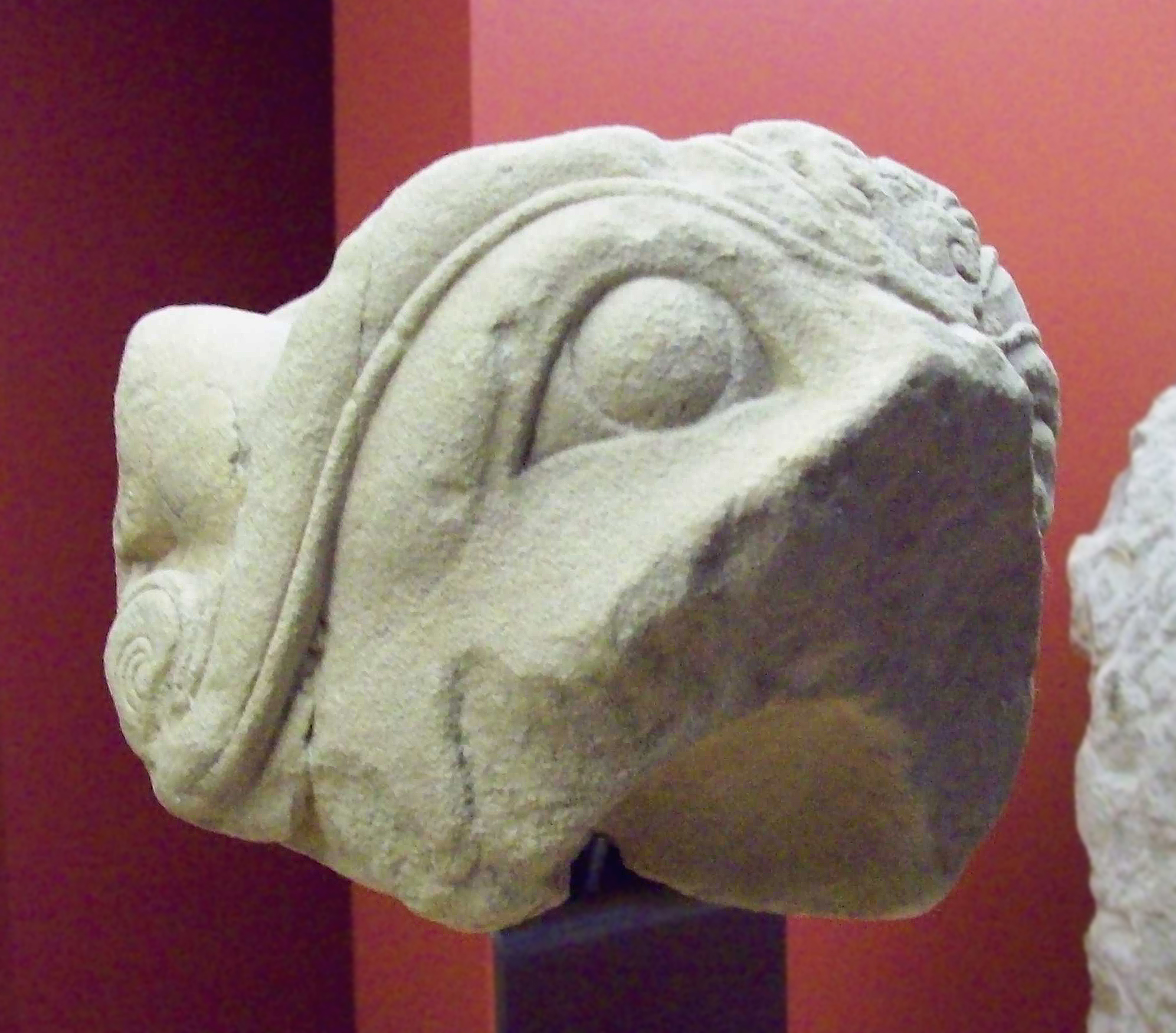 Iberian artwork from the Iron Age II.